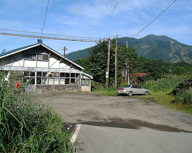 Hirafu Station on the Hakodate Main Line in Hokkaido, Japan